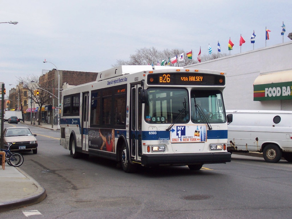 NYCTA Orion 7 hybrid #6593 on the B26 line in Ridgewood, NY.